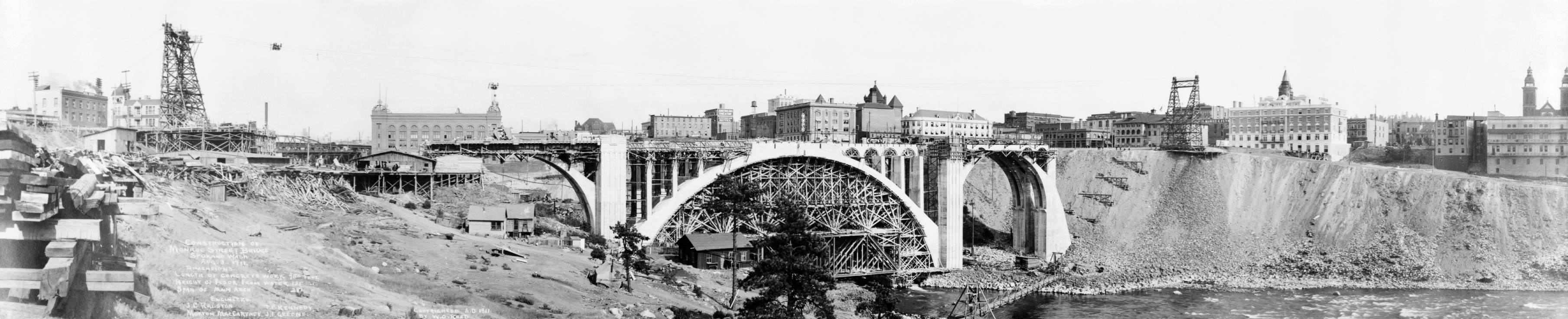 Construction of Monroe Street Bridge, Spokane, Wash. On front under title: "Dimensions. Length of concrete work, 780 feet. Height of floor from water, 135 [feet]. Span of main arch, 281 [feet]. Engineers; J. C. Ralston, T. F. Kennedy, Morton MacCartney, J. F. Greene. Copyrighted A.D. 1911 by W. O. Reed, Spokane, Wash."